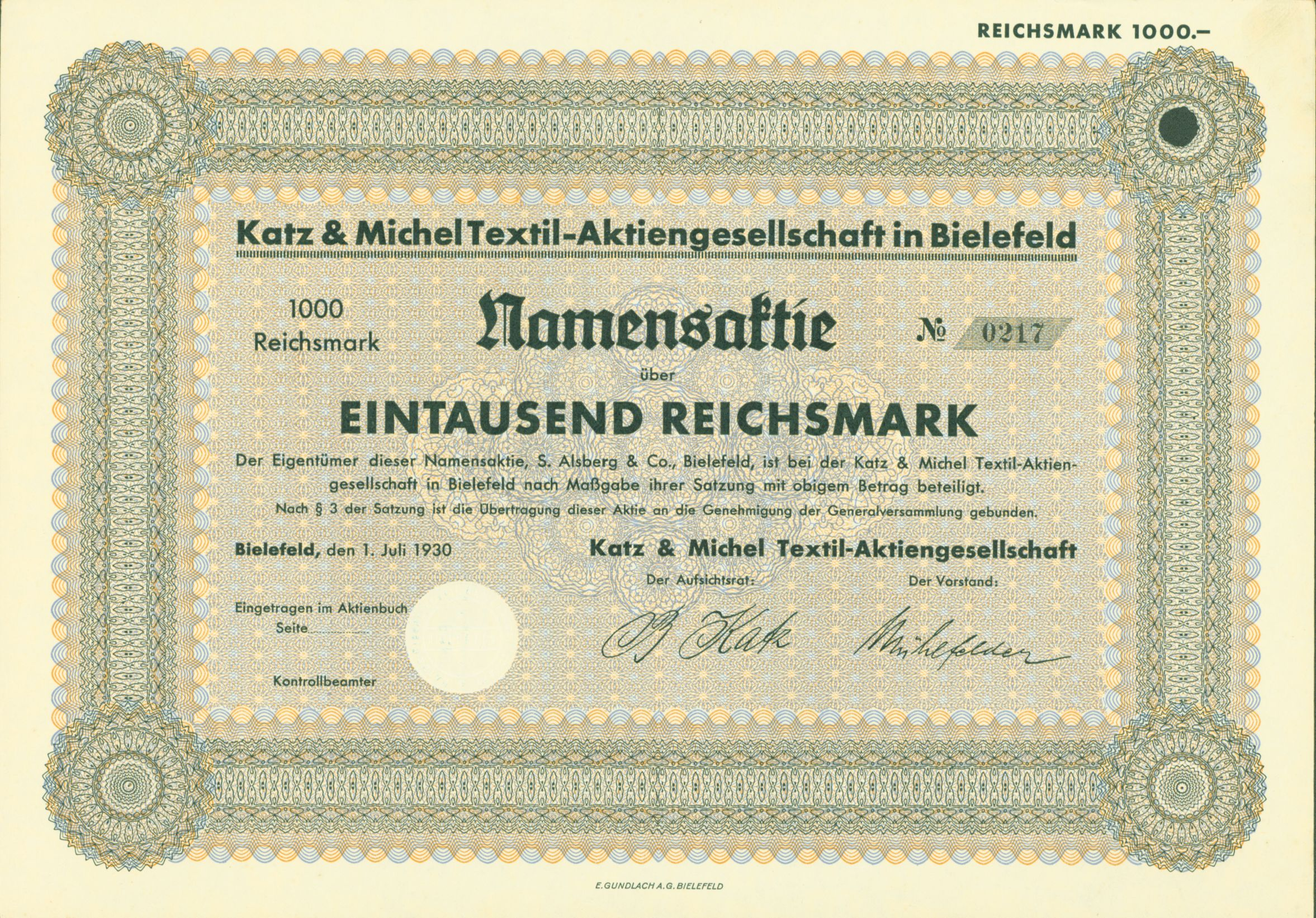 Share of the Katz & Michel Textil-AG, issued 1. July 1930